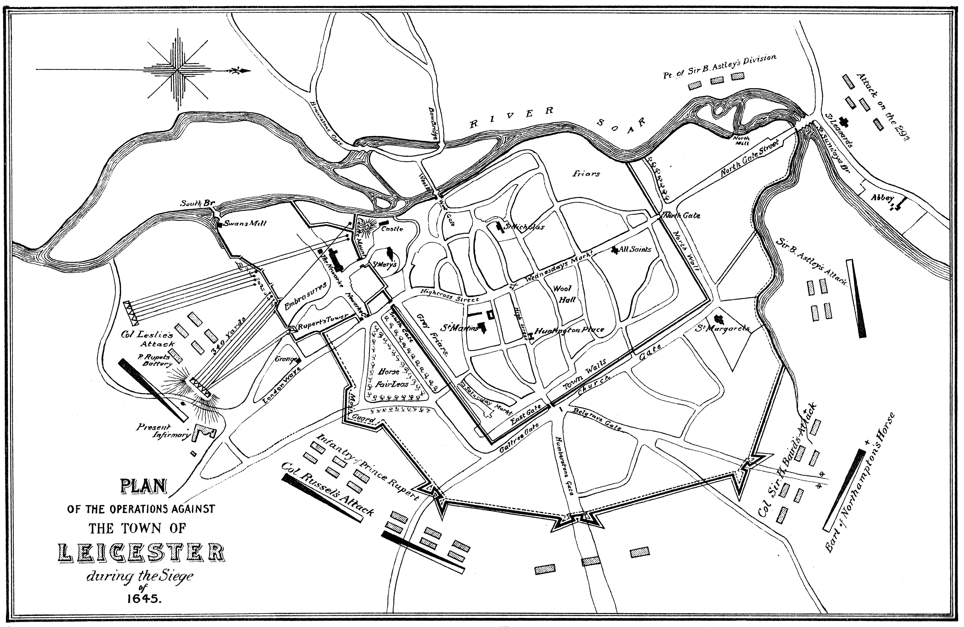 Map of the 1645 siege of Leicester